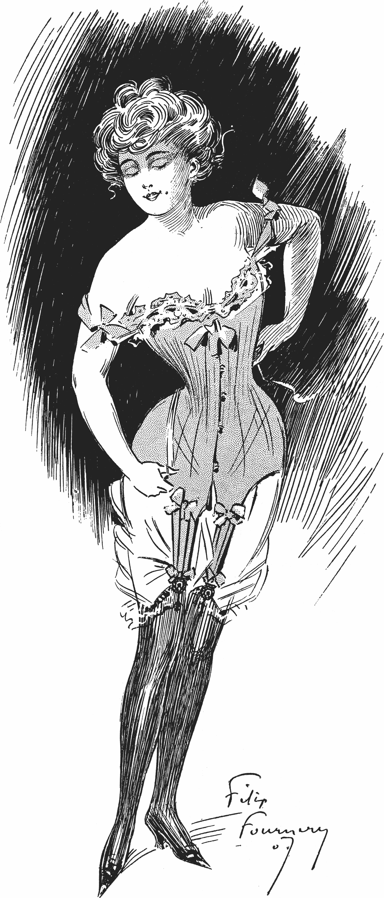 A woman in corsette, French mag illustration, Les Dessous Elegants, Mars 1910